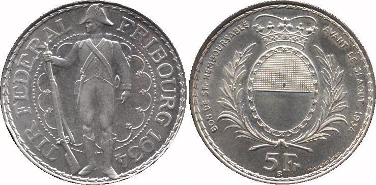 1934 Shooting Thaler